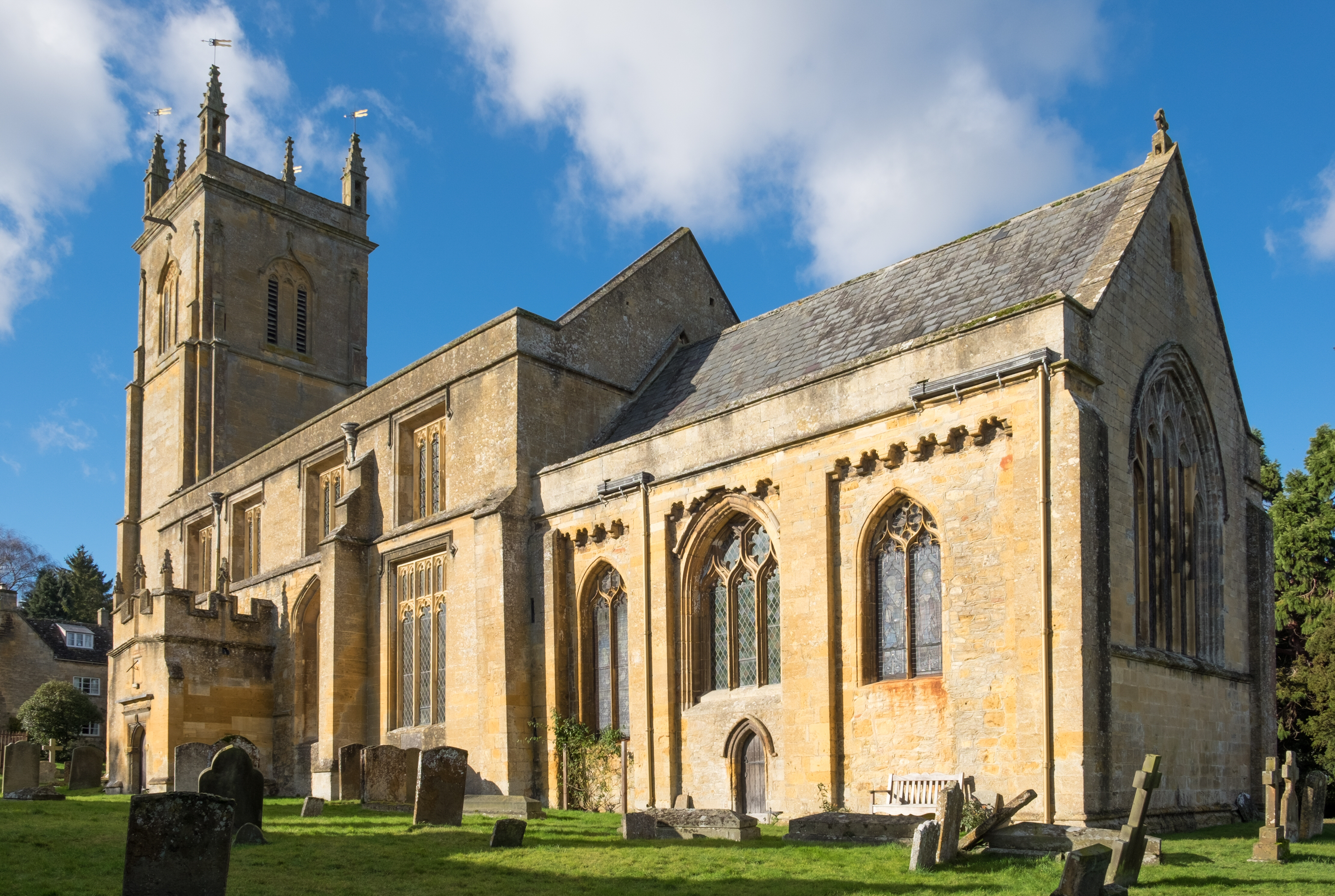 The church of St Peter and St Paul in Blockley, Gloucestershire. This church, parts of which date back to the 12th century, is a Grade II* Listed Building in England.